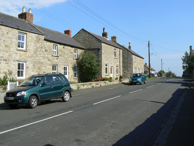 Village street Glanston village, looking towards the A697.